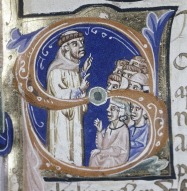 Foulques of Neuilly preaching the fourth crusade to seated men